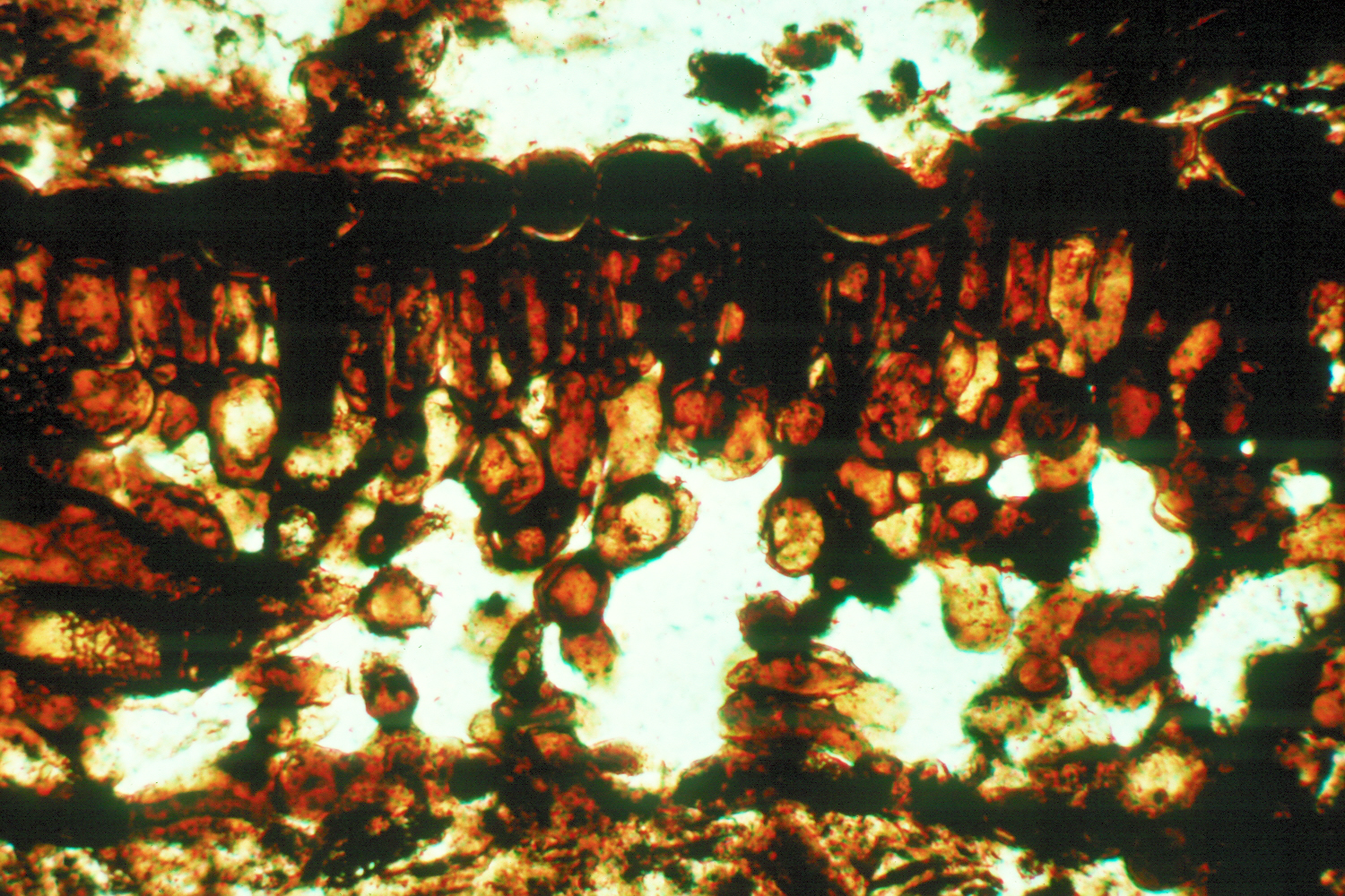 Cross section of a leaf of Glossopteris from permineralized peat of the Late Permian Blackwater Coal Measures near Homevale Station, Queensland